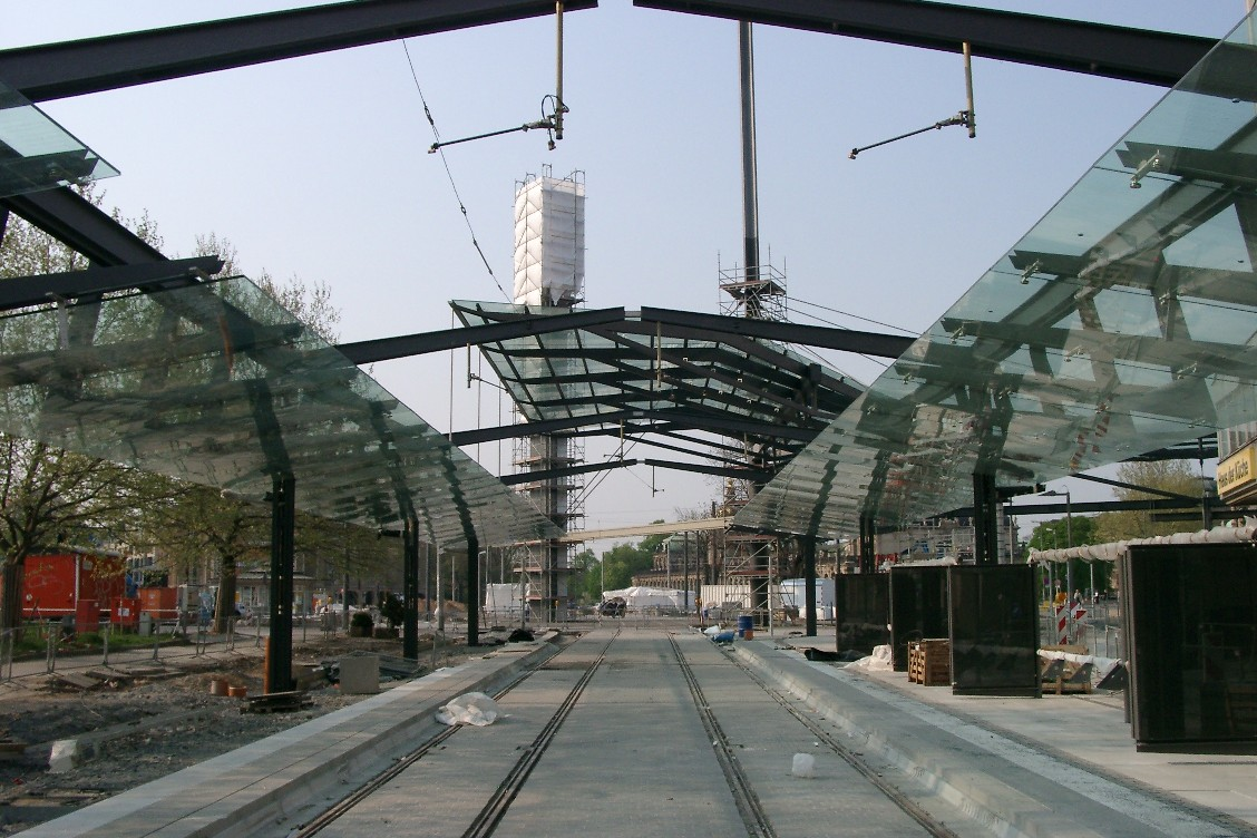 Dresden (Germany) Postplatz public works